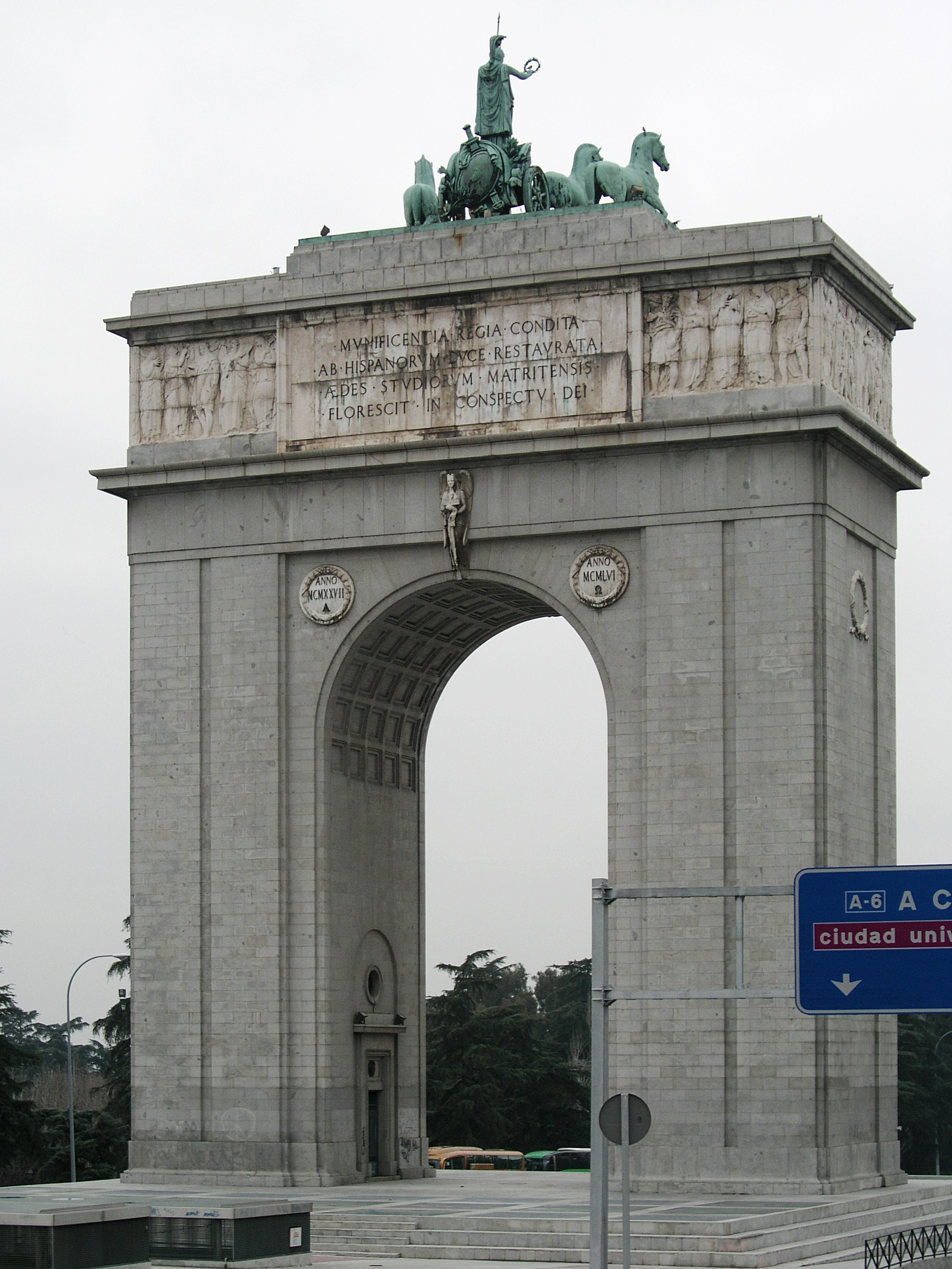 Arco de la Victoria, Moncloa, Madrid, España